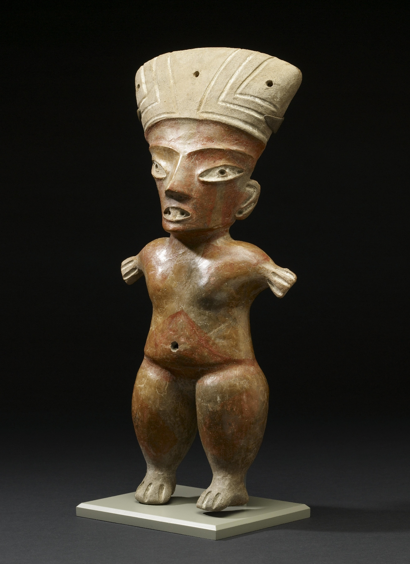 Large, hollow figures epitomize the sculptural expertise of the earliest pottery artists in the central Mexican highlands. Found in burials at sites in the Valley of Mexico, such as Tlatilco and Tlapacoya, and many others in the adjacent states of Morelos and Puebla, these figures typically portray nude women. Artists accentuate the hips and firm breasts while reducing the arms and feet to small, simplified forms. This corporeal focus has prompted some scholars to interpret them as fertility objects pertaining to female rites of passage or fecundity. An alternative view sees the figures as representations of religious practitioners in the throes of shamanic trance. This interpretation calls attention to the artistic accentuation of the head and the careful rendering of elaborate head wraps or coiffures. Frequently, too, these figures' mouths are rendered slightly open and their eyes stare blankly into space. These features recall renderings of shamanic trance throughout the Americas. Both figures have scored ears, which the Spanish observed among many Native priests in highland Mexico and Yucatan, cut during blood-offering rituals that served both religious ideology and the achievement of a spiritual trance state.